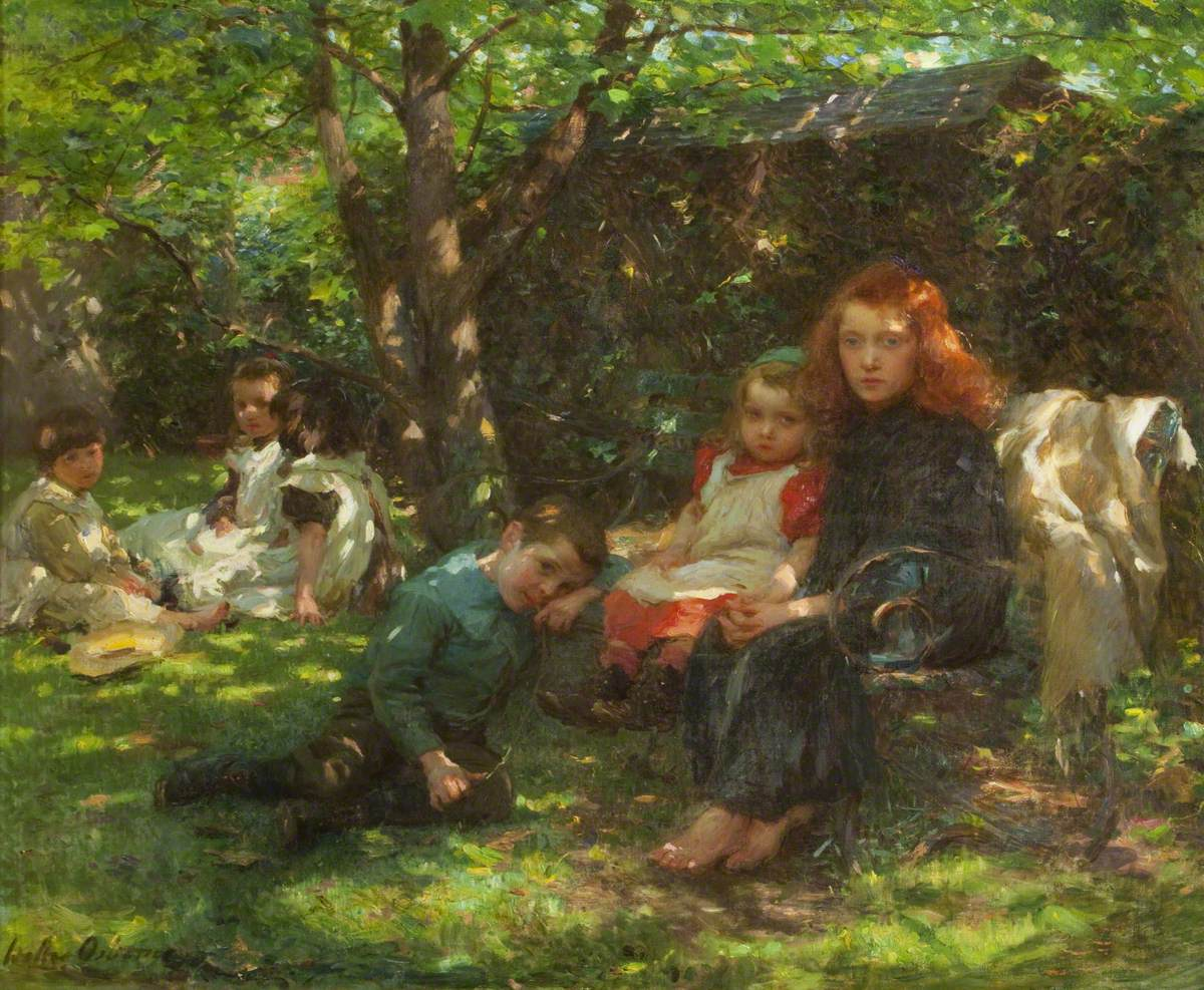 Summertime. Harris Museum, Art Gallery & Librar